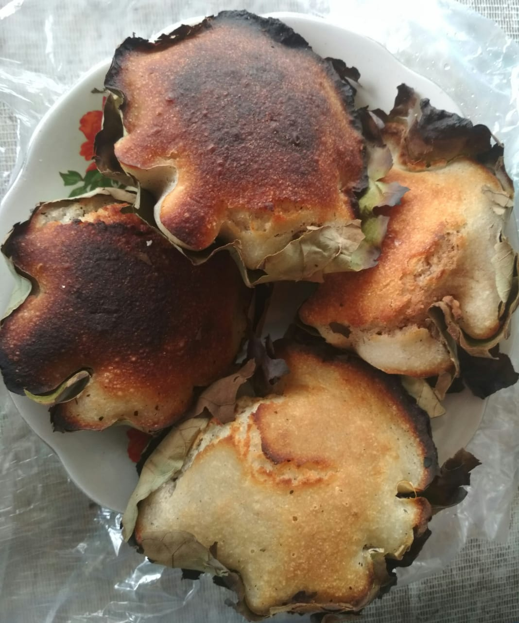 Expression error: Unrecognized word "kue".